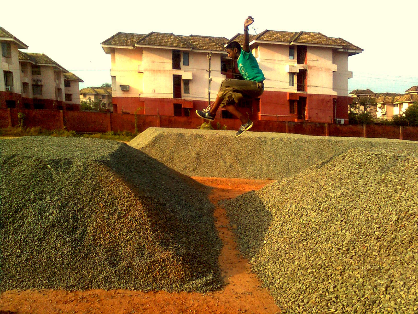 JalVayuVihar at Mundamveli